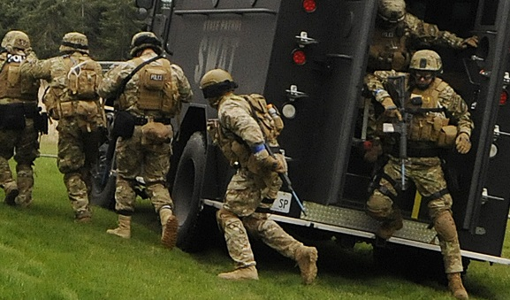 OAK HARBOR, Wash. (Feb. 20, 2013) Members of the Washington State Patrol Special Weapons and Tactics (SWAT) Team make their way to their assault positions while conducting a hostage negotiation and ground assault drill at Naval Air Station Whidbey Island (NASWI). The drill was part of Citadel Shield 2013, an annual force protection training exercise to assess and improve the security force's ability to respond to security threats.